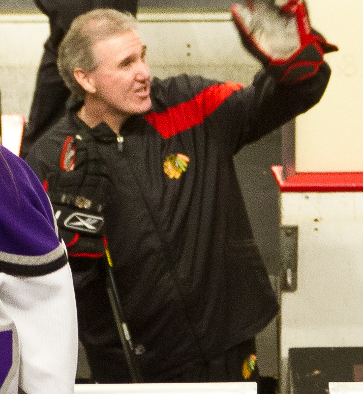 Coach Haviland